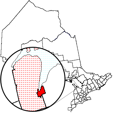 Owen Sound, Ontario with surrounding Agglomeration (Georgian Bluffs)